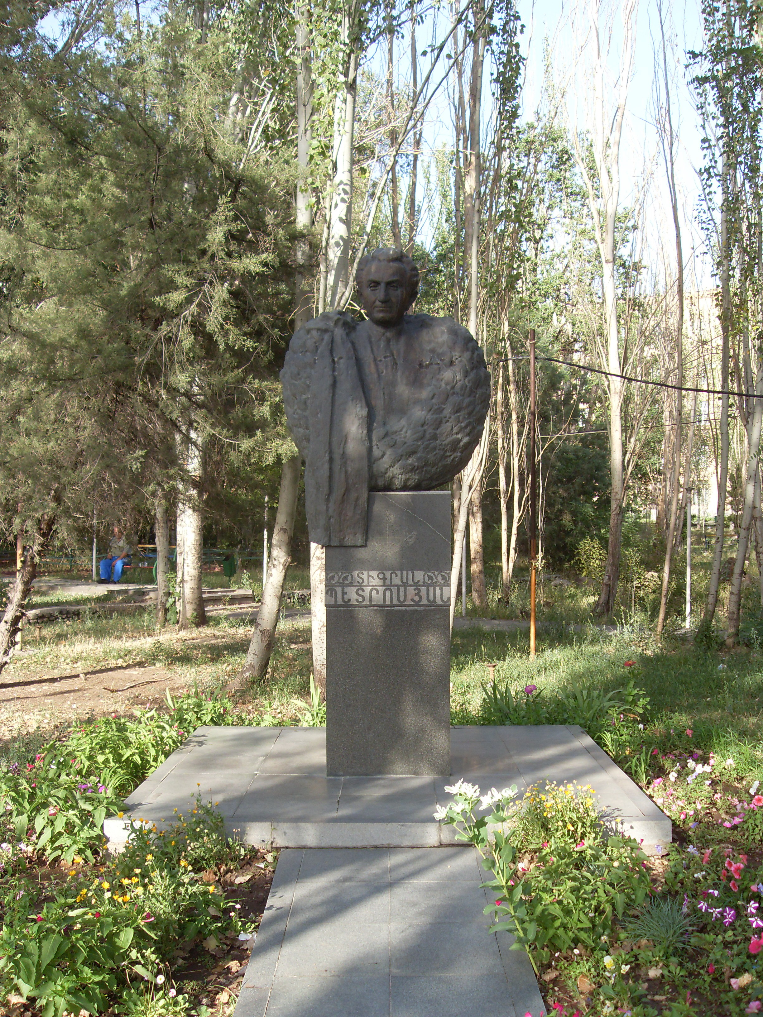 Chess 9th world champion Tigran Petrosian statue, Yerevan, 1989 6/151.1